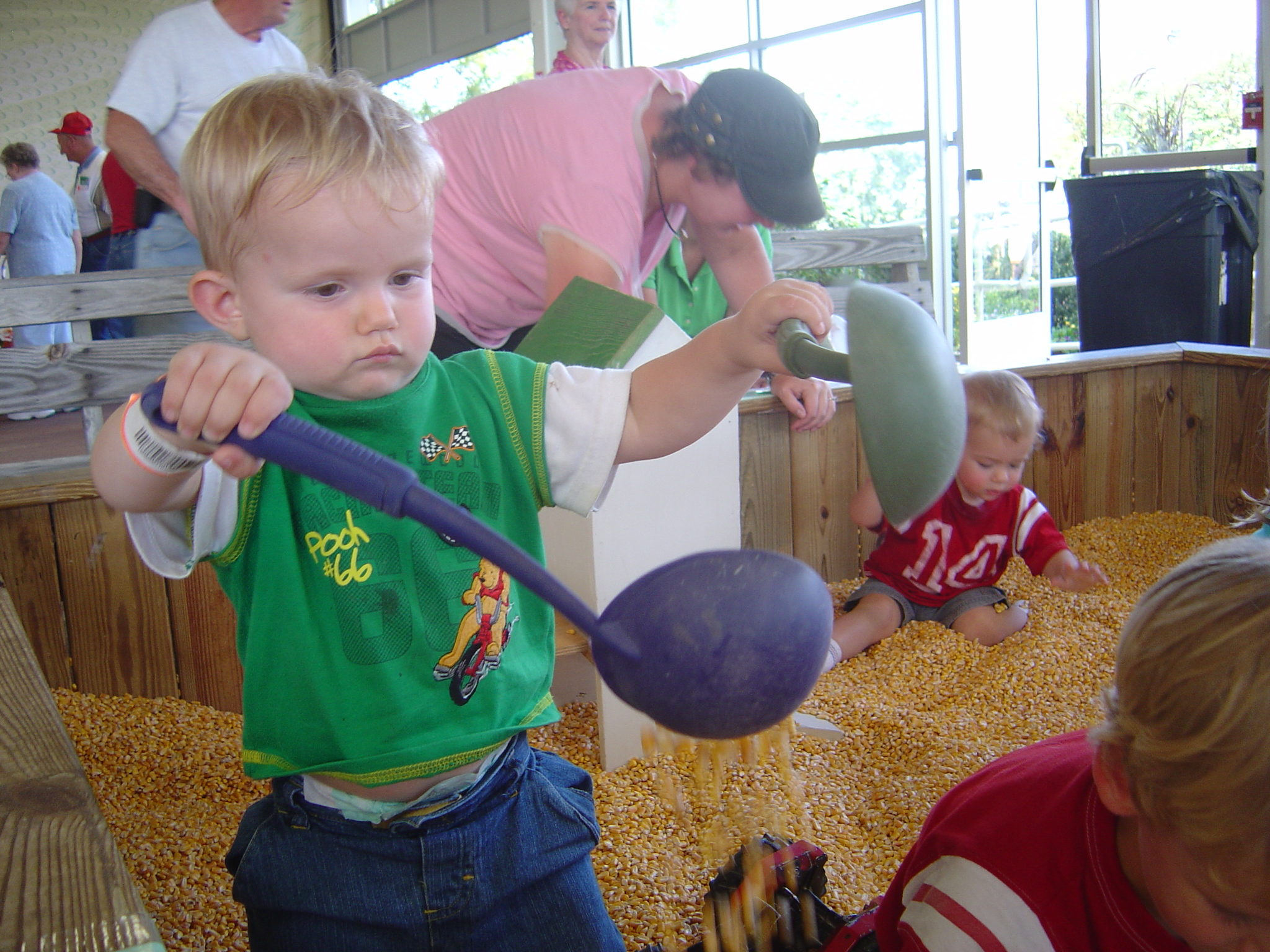 Children playing in a corn kernel box in Virginia World at the Virginia State Fair, 2007.